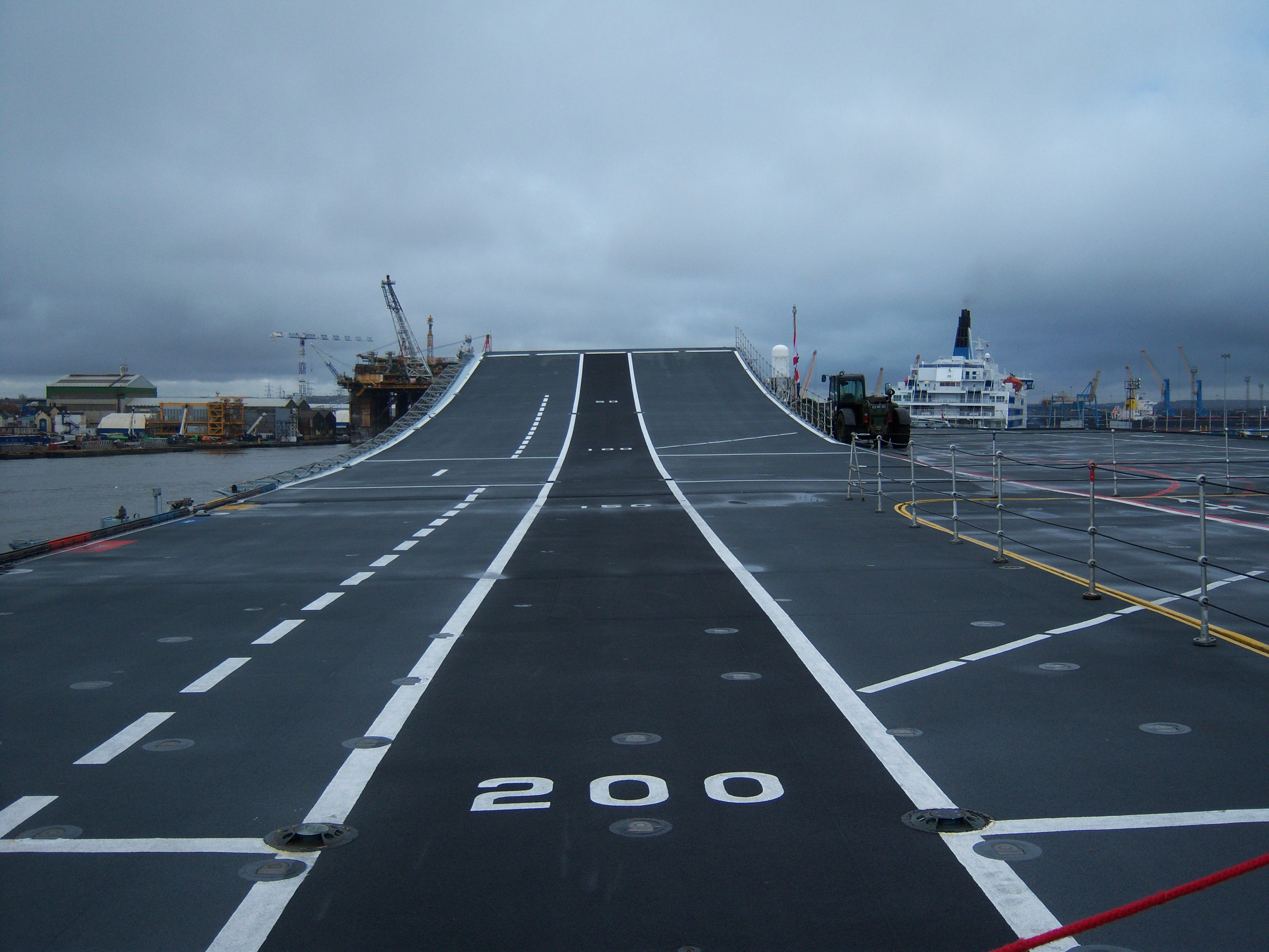 The flagship of the Royal Navy, the aircraft carrier HMS Ark Royal (R07)